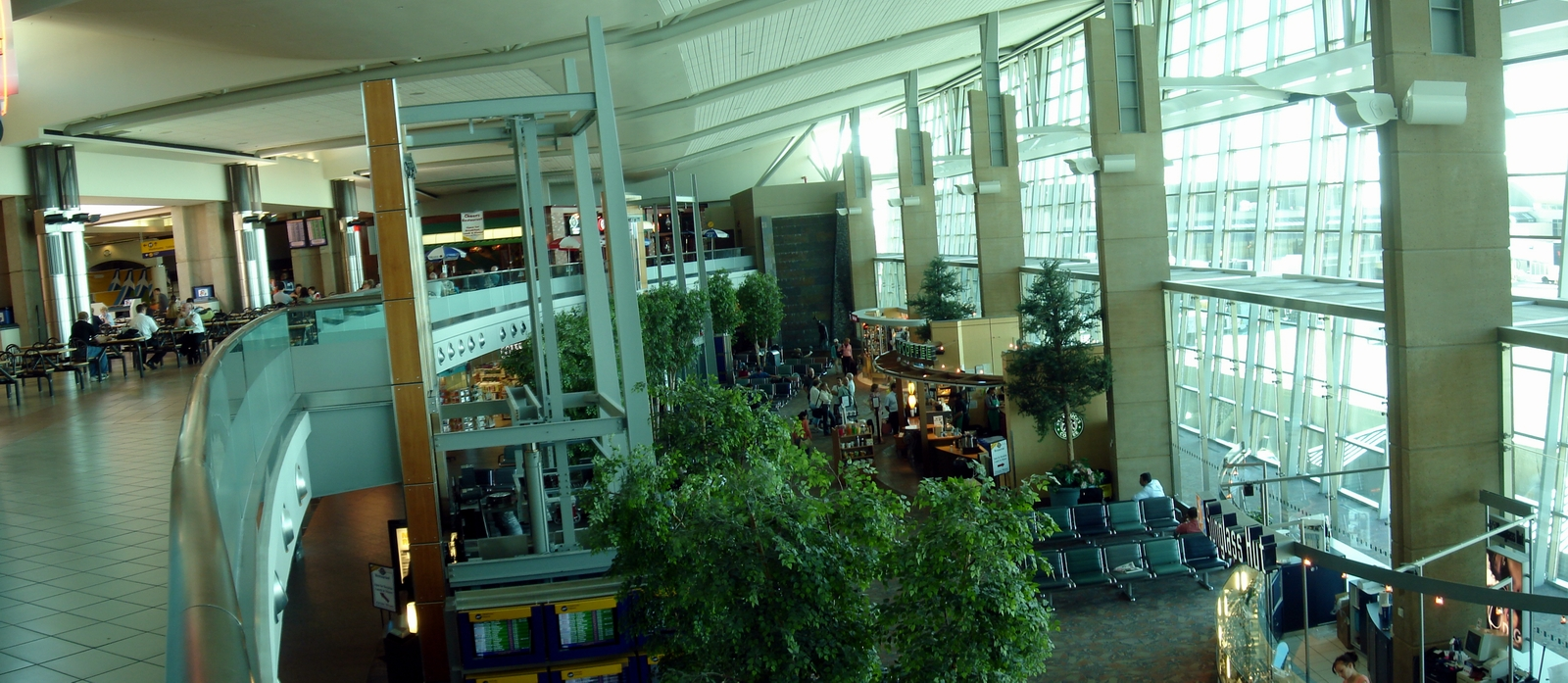 Calgary International Airport - Foodcourt and Atrium